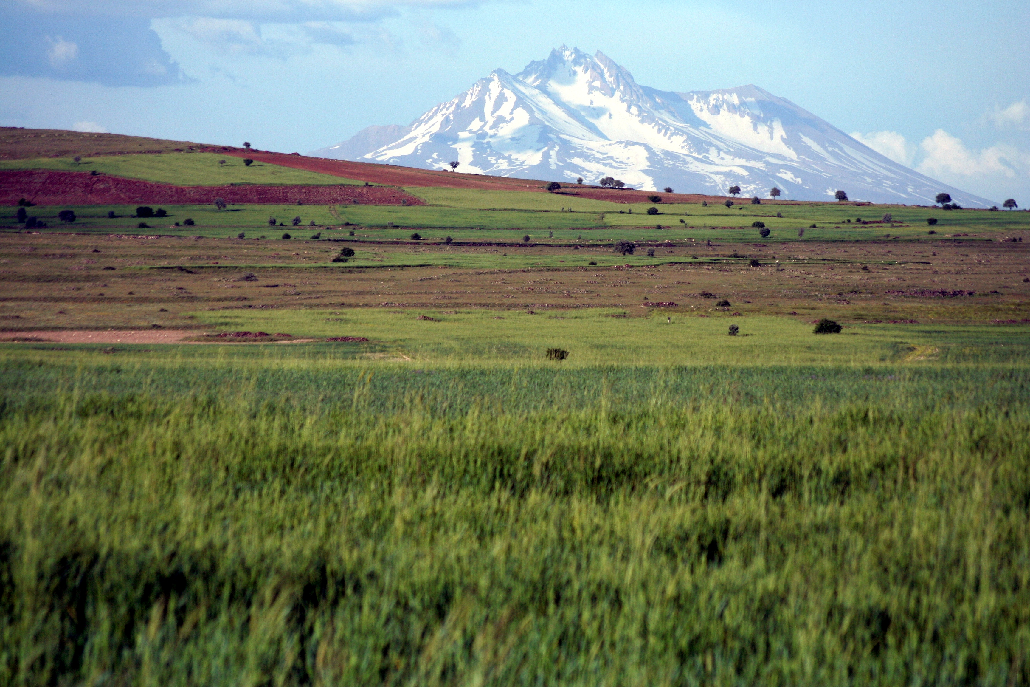 View of a snowy mountain in summer in Cappadocia.